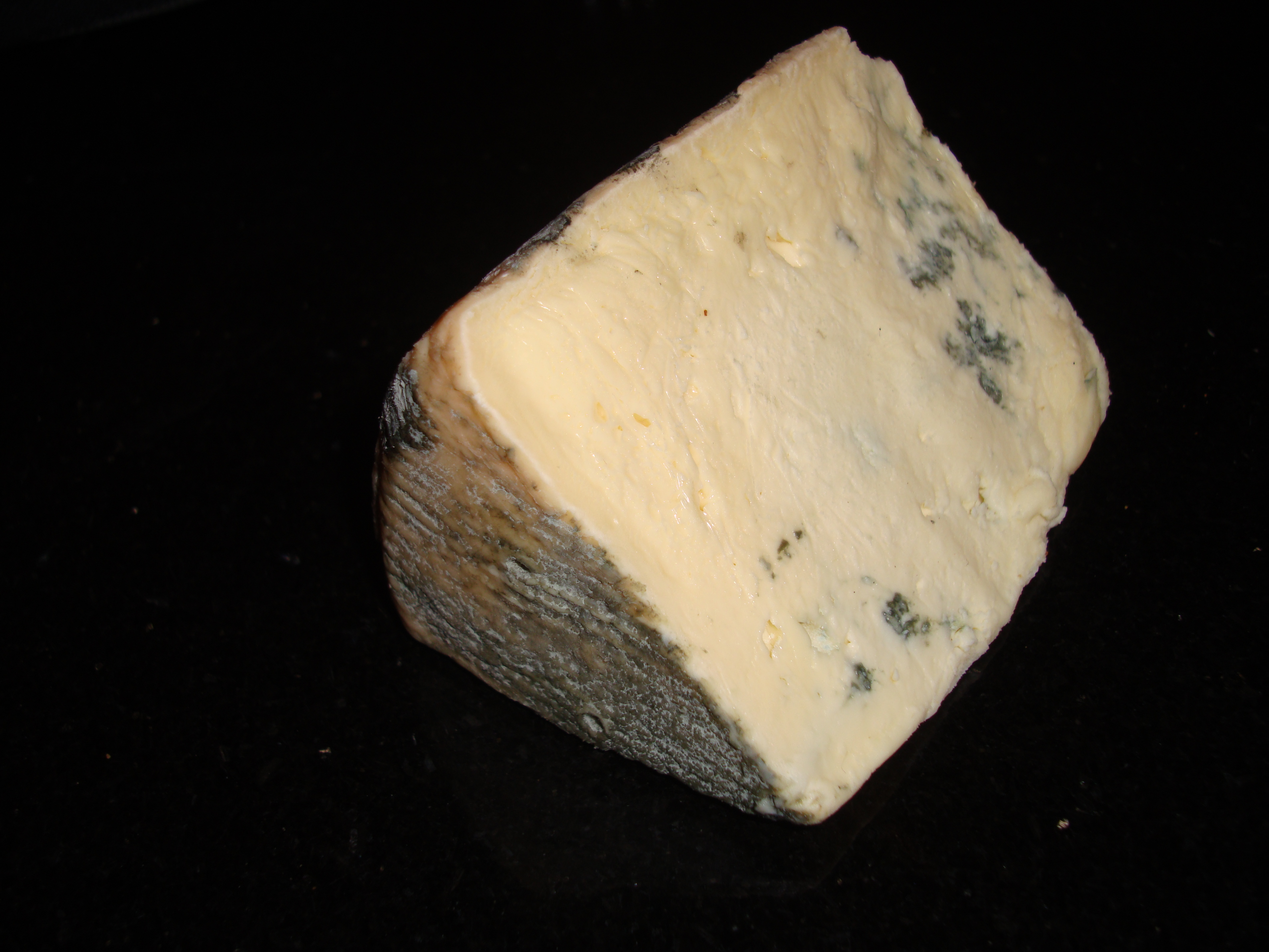 A slice of Cashel Blue Cheese, Irish Cheese